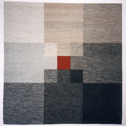 Seinavaip "RUUT" Einike Soosaar